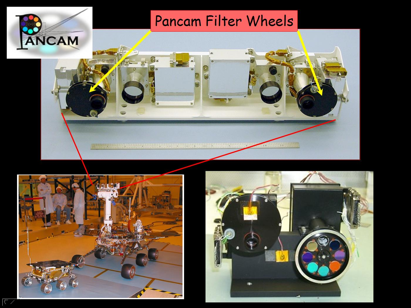 This image taken at JPL shows the panoramic camera used onboard both Mars Exploration Rovers. The panel to the lower right highlights the multicolored filter wheel that allows the camera to see a rainbow of colors, in addition to infrared bands of light. By seeing Mars in all its colors, scientists can gain insight into the different minerals that constitute its rocks and soil.